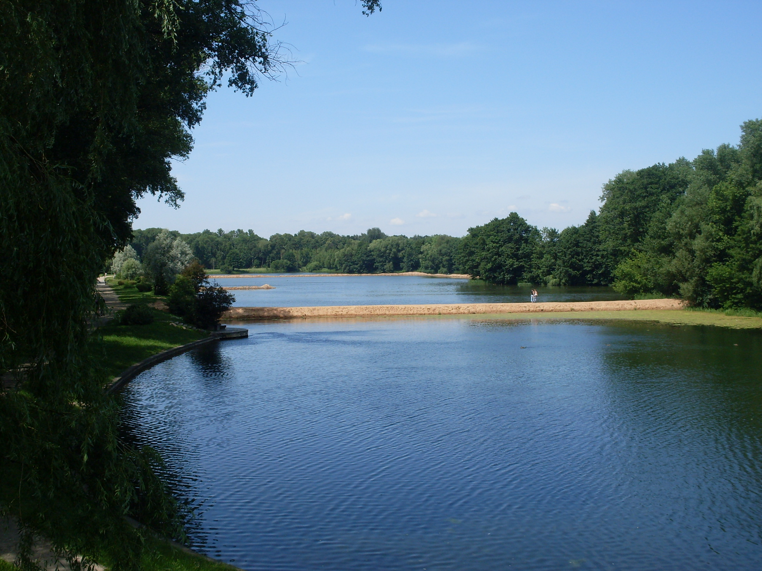 The Kamsamolskae lake in Minsk before reconstruction work